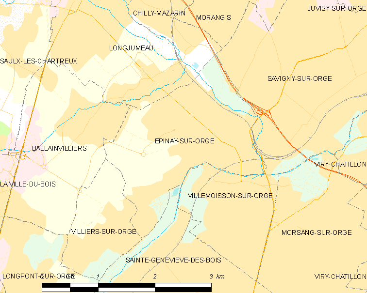 Map of French municipality Épinay-sur-Orge